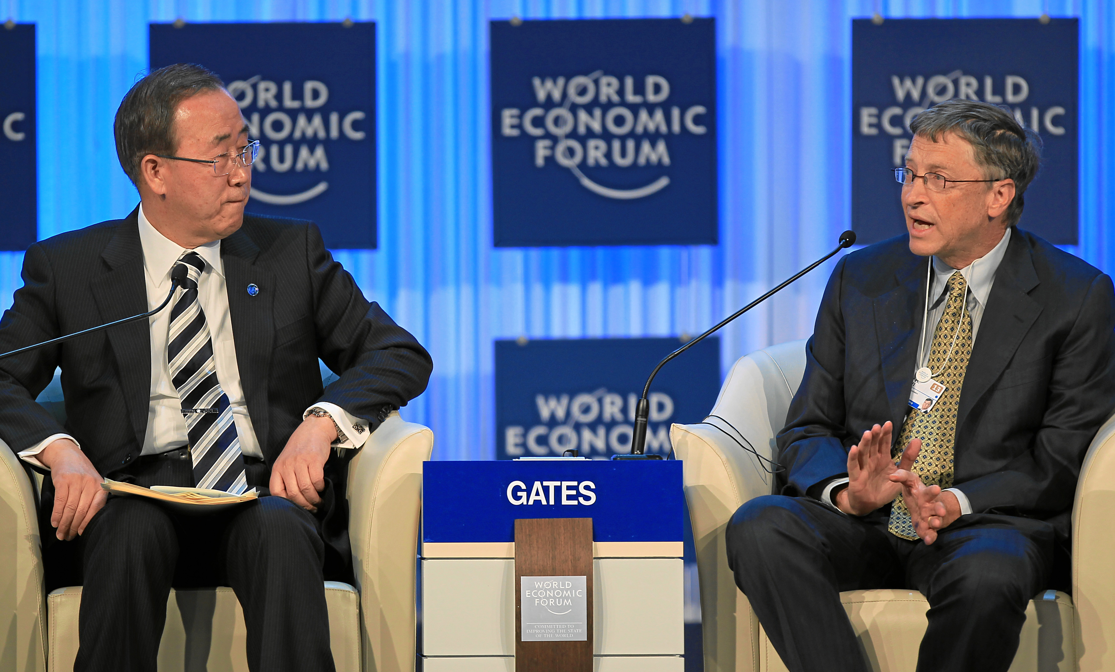 DAVOS/SWITZERLAND, 24JAN13 - Ban Ki-moon (L) Secretary-General, United Nations, New York and William H. Gates III, Co-Chair, Bill & Melinda Gates Foundation, USA, captured during the session 'The Global Development Outlook' at the Annual Meeting 2013 of the World Economic Forum in Davos, Switzerland, January 24, 2013. . . Copyright by World Economic Forum. . Sebastian Derungs